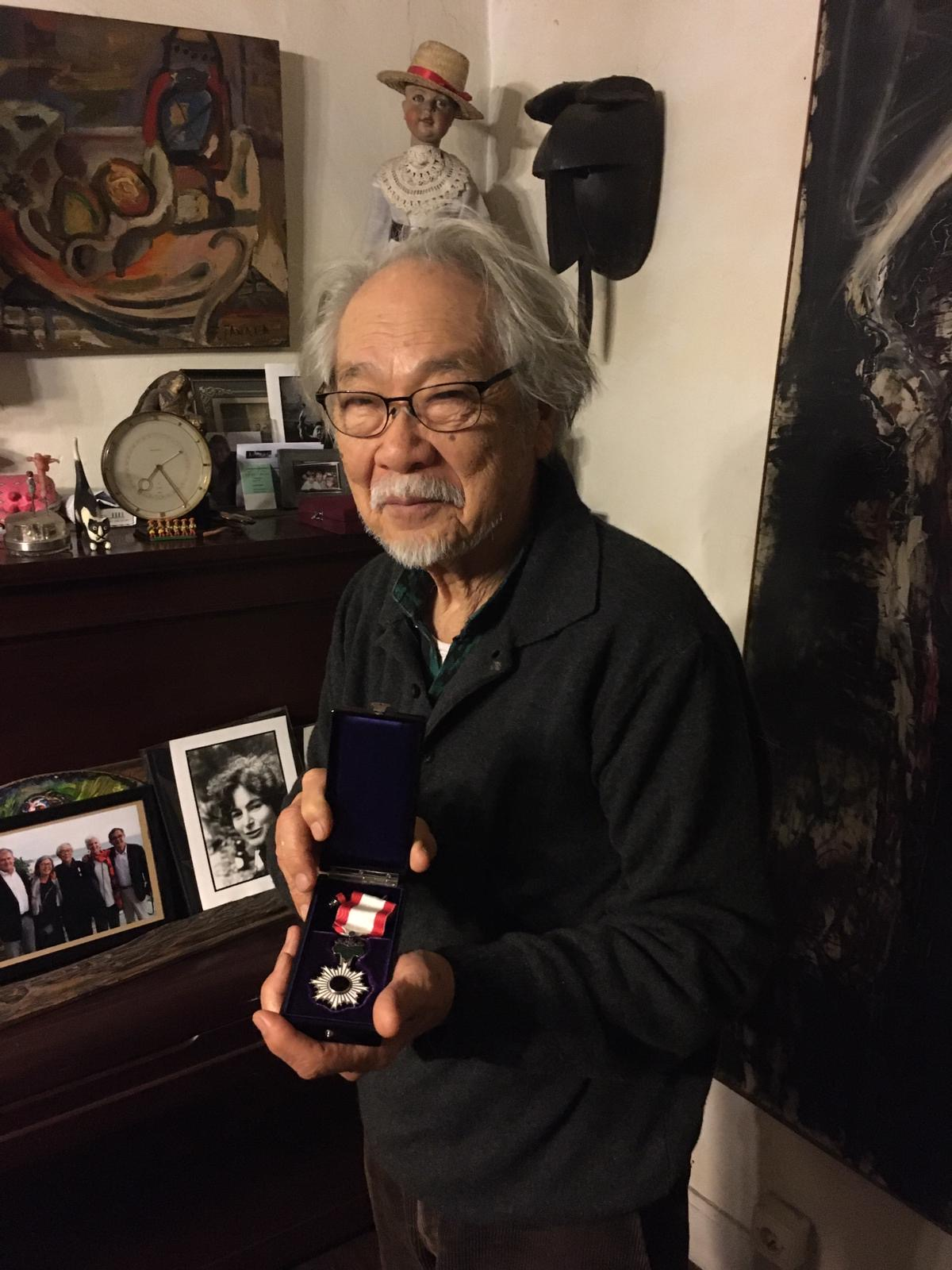 Flavio-Shiro with the Medal of the Rising Sun